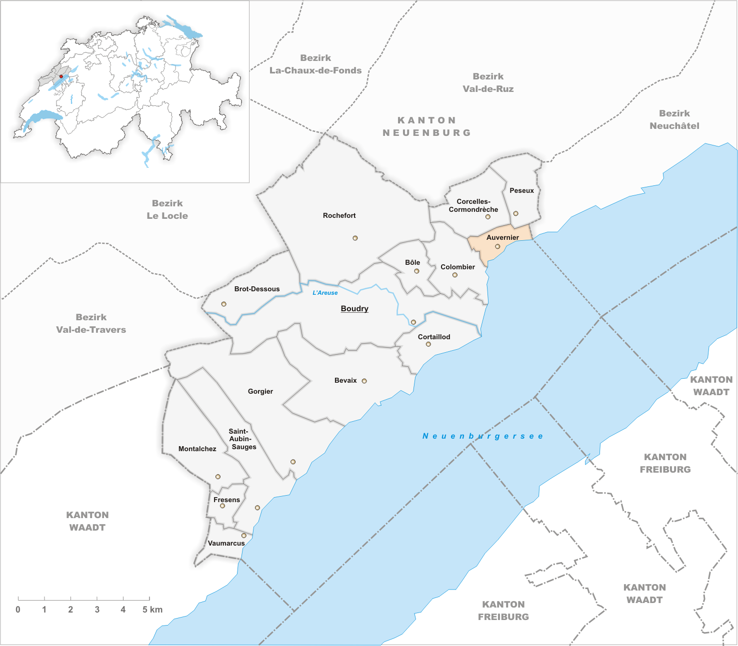 Municipality Auvernier